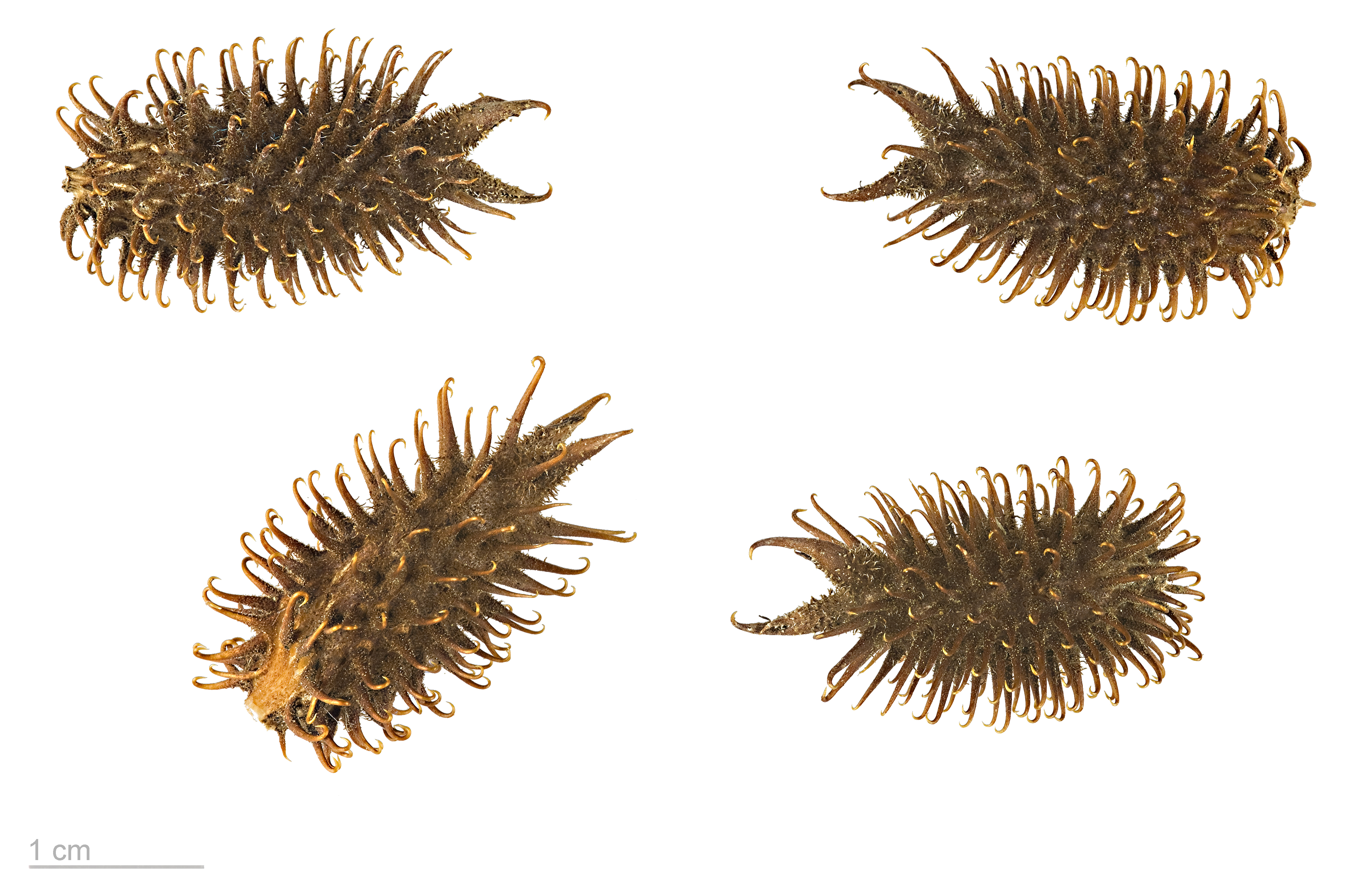 rough cocklebur , fruits and seeds